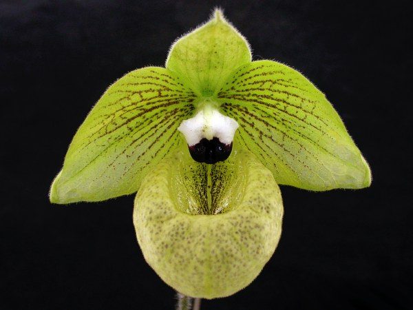 Paphiopedilum